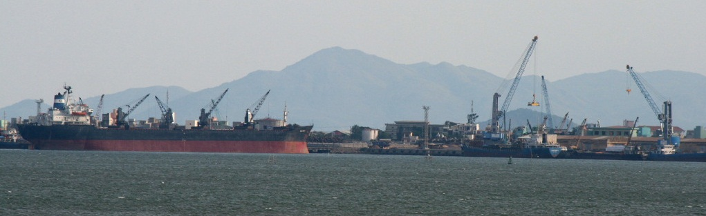 Quy Nhon Port in Quy Nhon, Binh Dinh Province, Vietnam